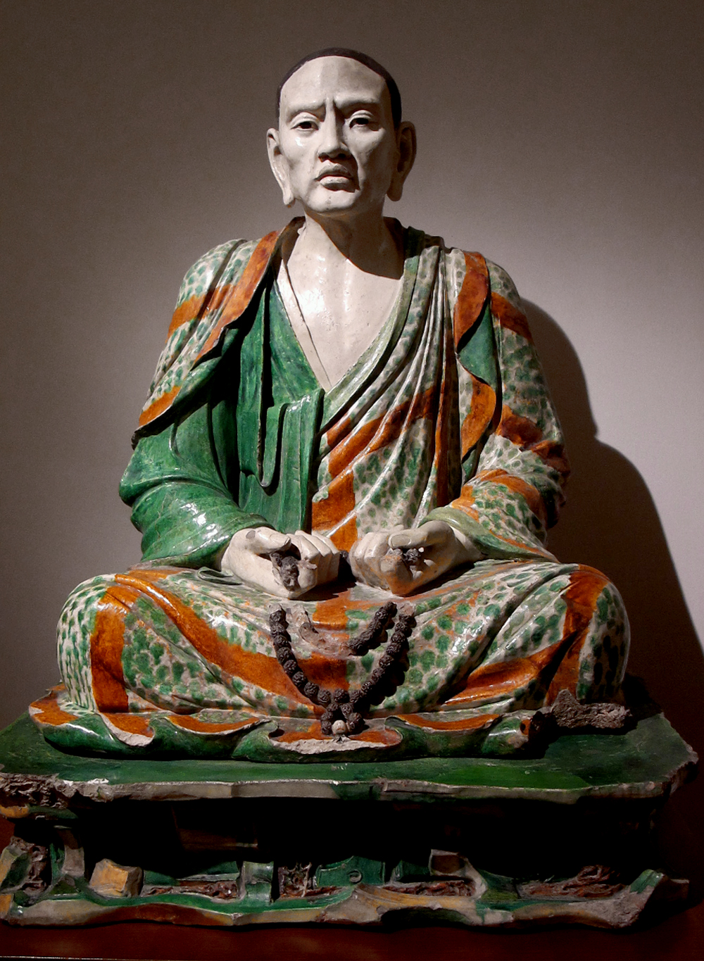 Statue of the luohan Tamrabhadra. Northern China Liao-Jin dynasties (10th-13th century) . Glazed terracotta. H: 123 cm. Musée Guimet, Paris.